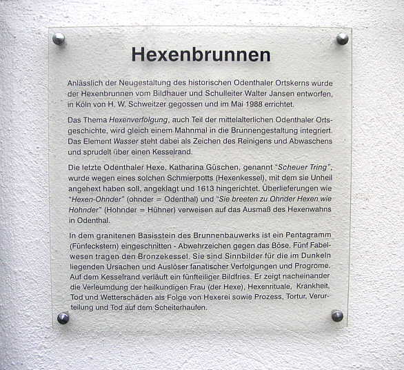 Odenthal plaque at the fountain of witches